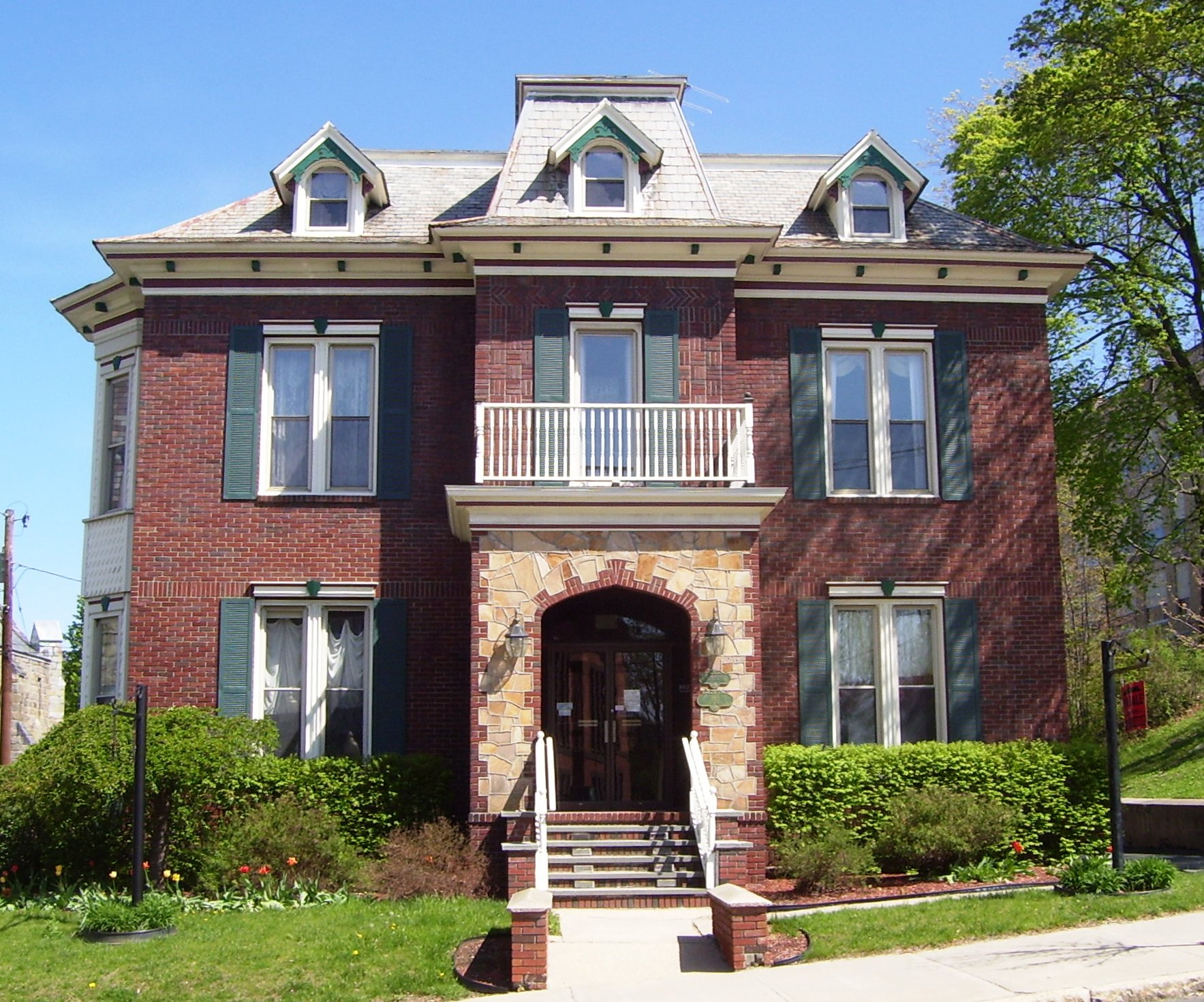 165 East Main Street between Church Street and Miner Street in North Adams, Massachusetts